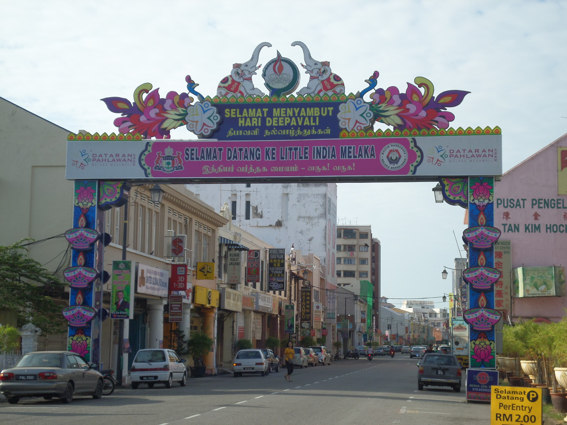 Little India, Central Malacca, Malacca, Malaysia